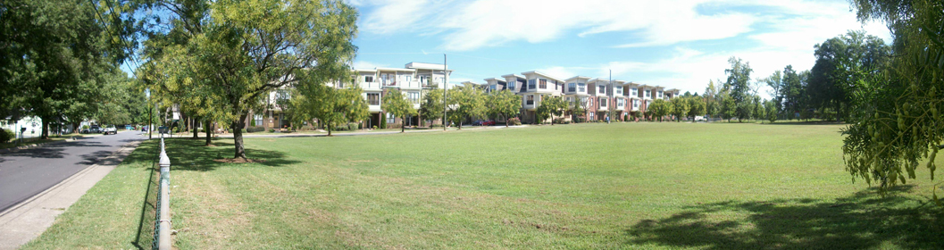 NoDa Neighborhood (North Charlotte) Park at Herrin and Spencer St.